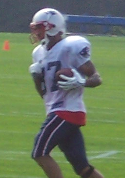 Reche Caldwell at 2006 New England Patriots training camp.